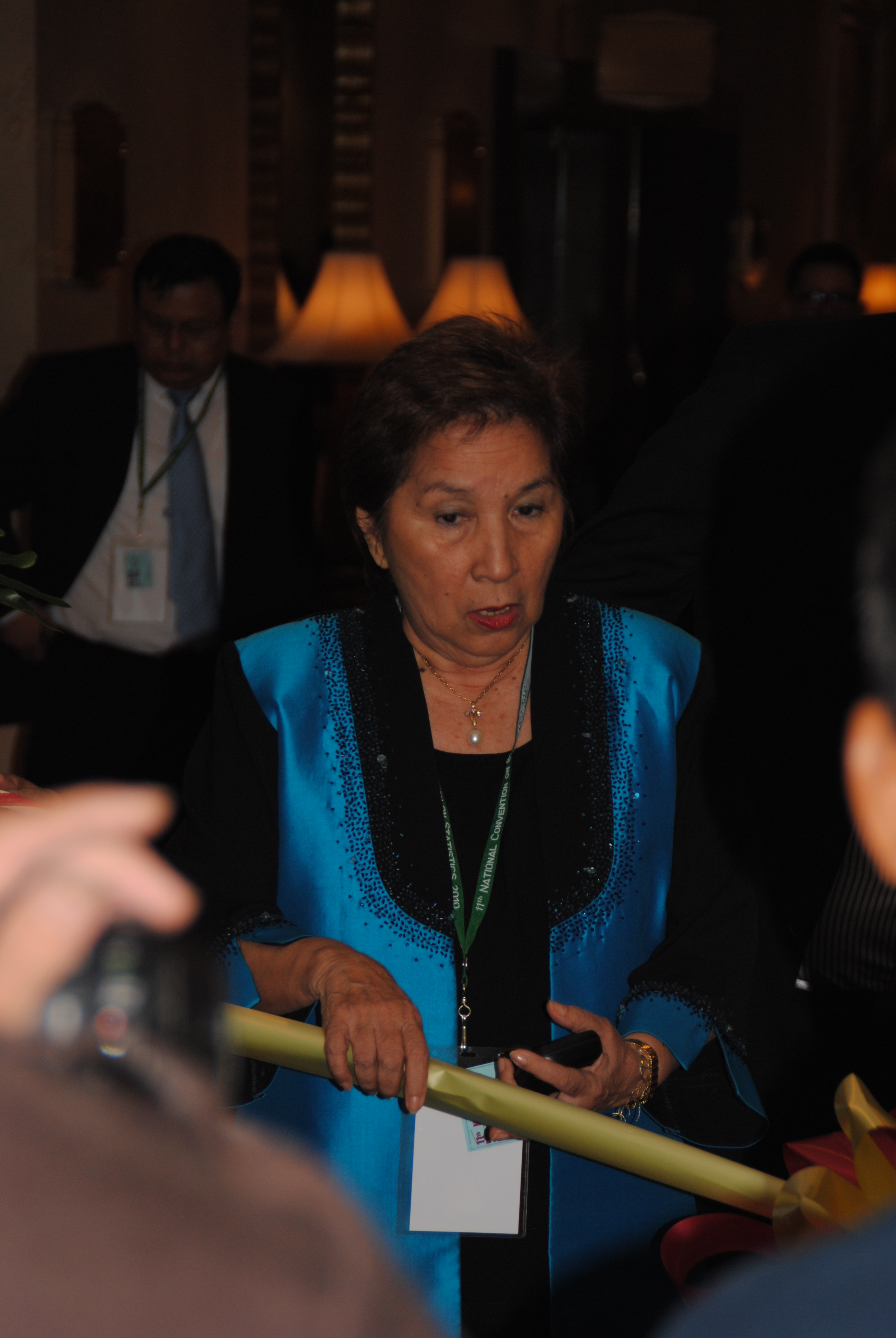 Winnie Monsod, Professor Emeritus of the University of the Philippines School of Economics at the 11th Philippine National Convention on Statistics where Wikimedia Philippines was an exhibitor.